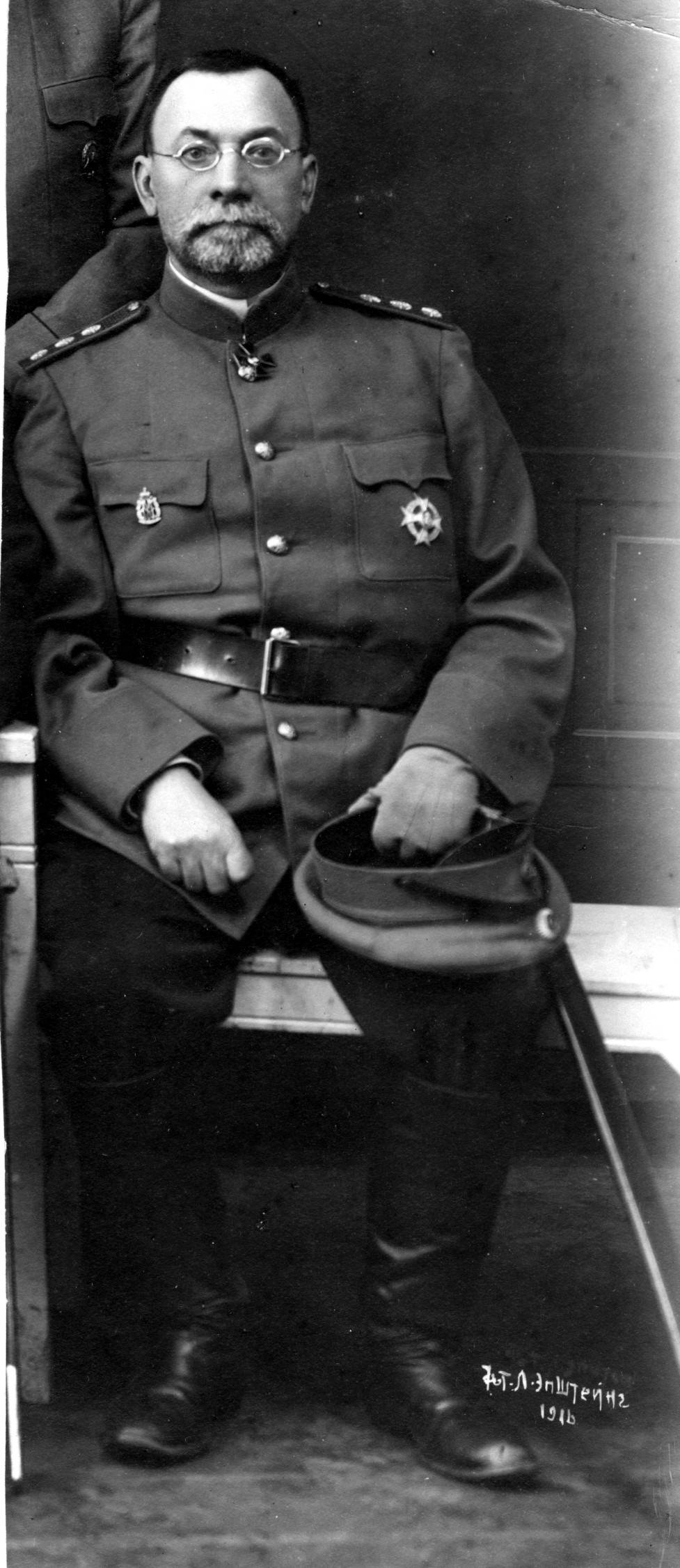 Ястремский Федор Николаевич - Главный Казначей Западного фронта 1916г.